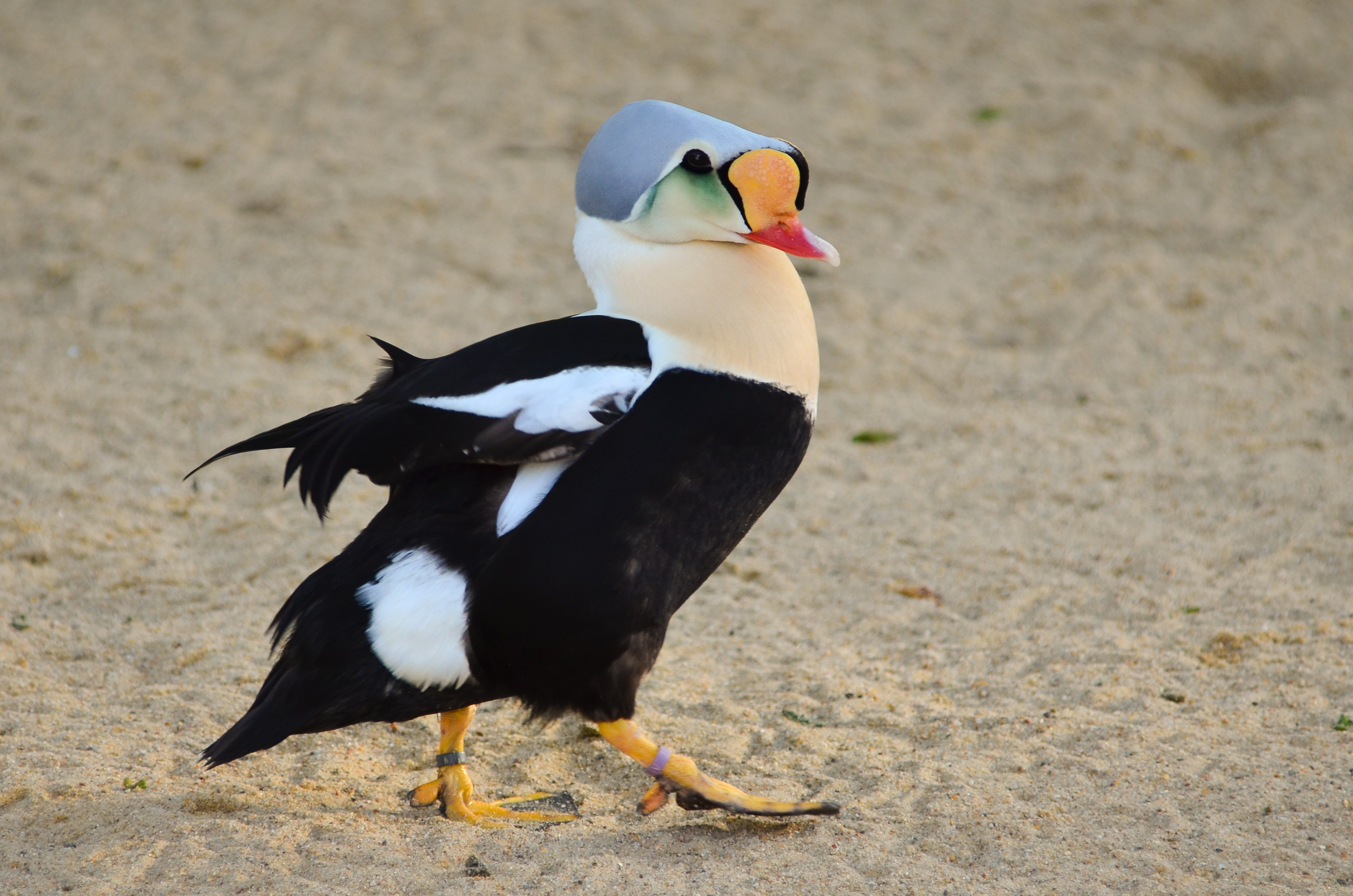 The gait of a King Eider (Somateria spectabilis) (male) at Weltvogelpark Walsrode (Walsrode Bird Park, Germany)